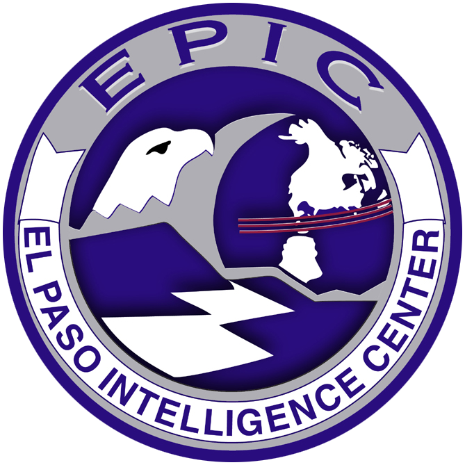 Seal of the El Paso Intelligence Center